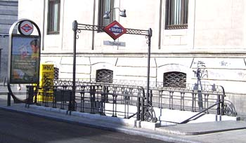 Entrance to Tribunal station, Madrid metro, July 2002.